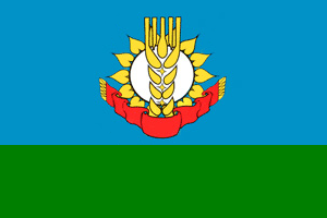 Flag of Sofiyivskyi raion, Dnipropetrovsk Oblast, Ukraine.